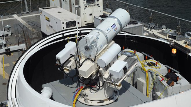 Navy laser successfully shoots down an unmanned drone during an on-board test of a laser prototype.